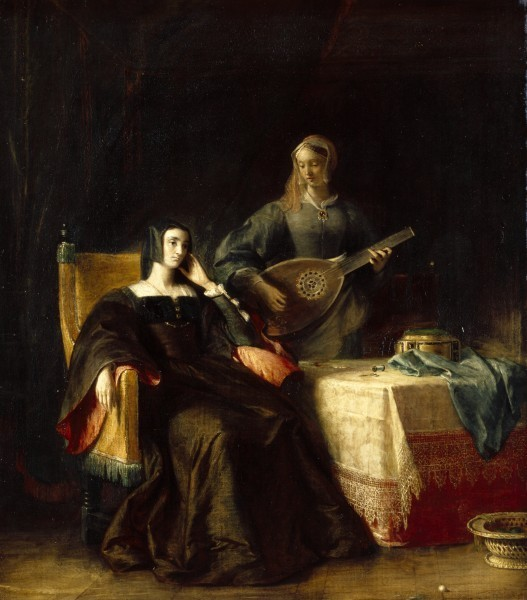 Katherine of Aragon, Henry VIII’s first wife and mother to Queen Mary I. The painting alludes to Act III, Scene I from Shakespeare’s Henry VIII.